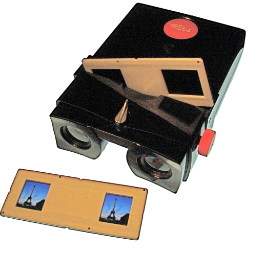 The "Red Button" Stereo Realist viewer is a handheld device used for viewing a stereoscopic image pair. The left and right images are photographic 35mm transparency film. They are held in careful alignment in a stereoscopic slide mount called a Realist slide. This format for stereo slide viewing was developed in the late 1940s by the David White Company as part of their Stereo Realist 3D photographic system which also included stereoscopic cameras and projectors. The slide mounts were typically made of cardboard, but aluminum and glass mounts were also common. Shown here is a modern plastic mount made by a German company "RBT".